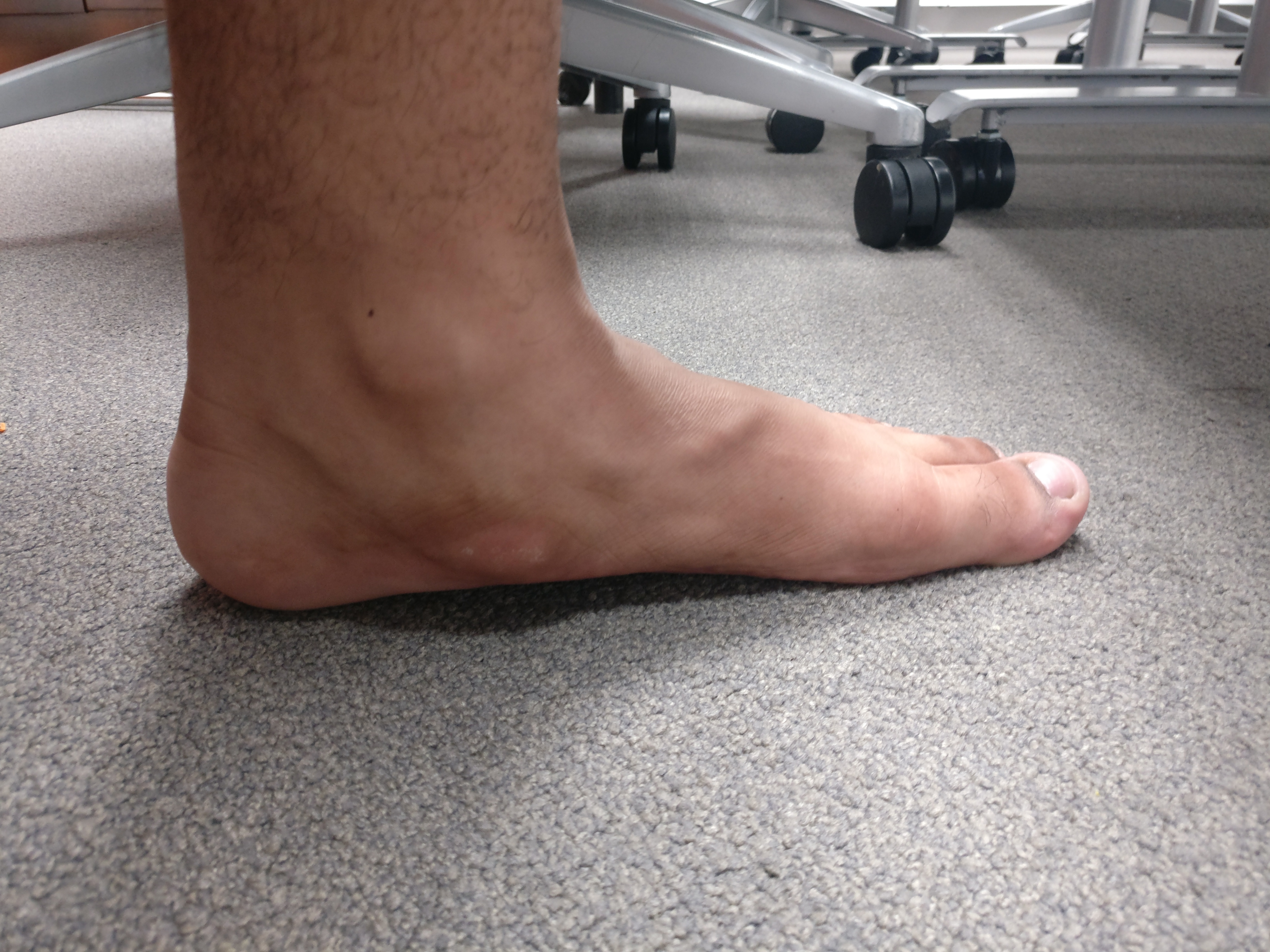 Flat foot deformity caused by accessory navicular bone.